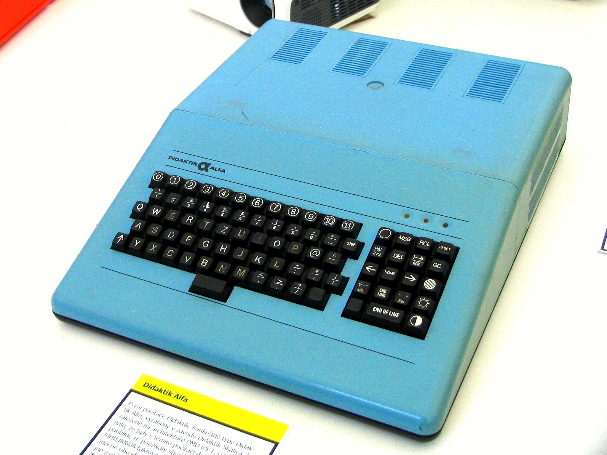 8bit computer Didaktik Alfa